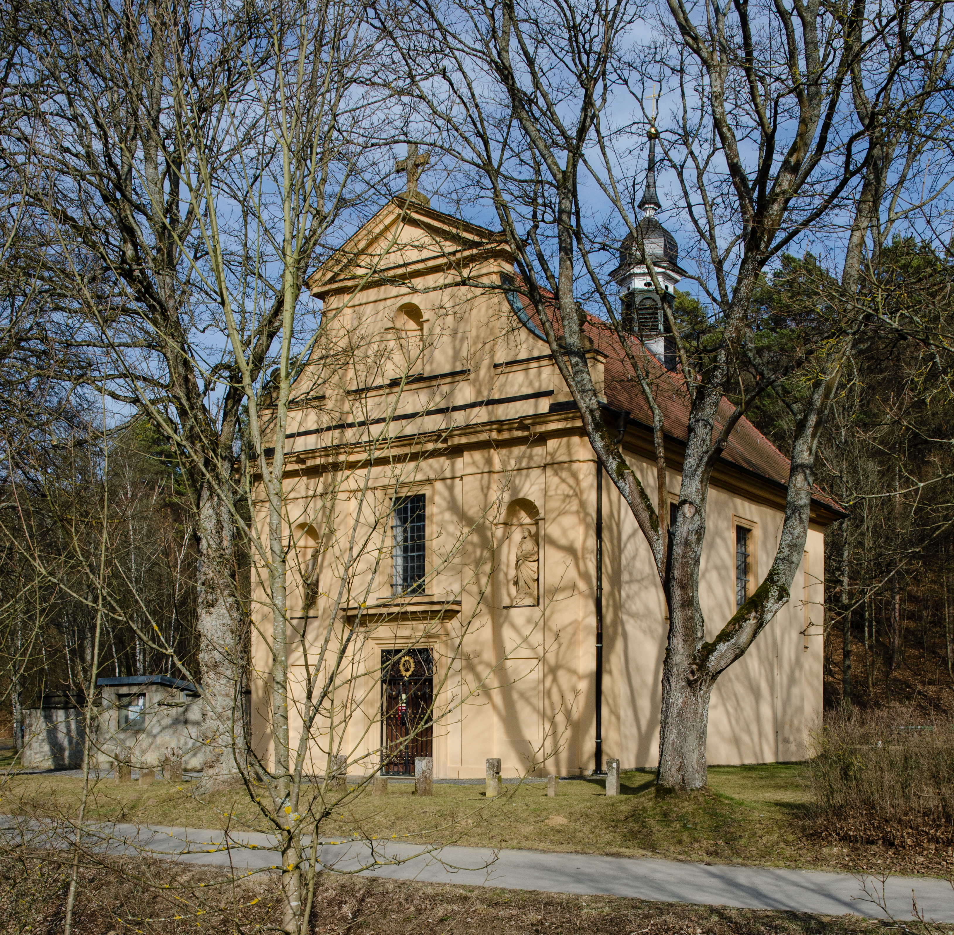 Kapelle zum Heiligen Kreuz (Talkirche), a pilgrimage chapel near Münnerstadt, Lower Franconia, Bavaria